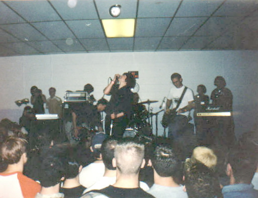 I took this photo while at Michiganfest 2000. I want to use it to add to the Discount(band) page. the photo is a wee hazy, but that's a great shot from one exciting band to see live on their last tour! also, I thought I should note that this is my first time uploading images onto wikipedia. thanks!